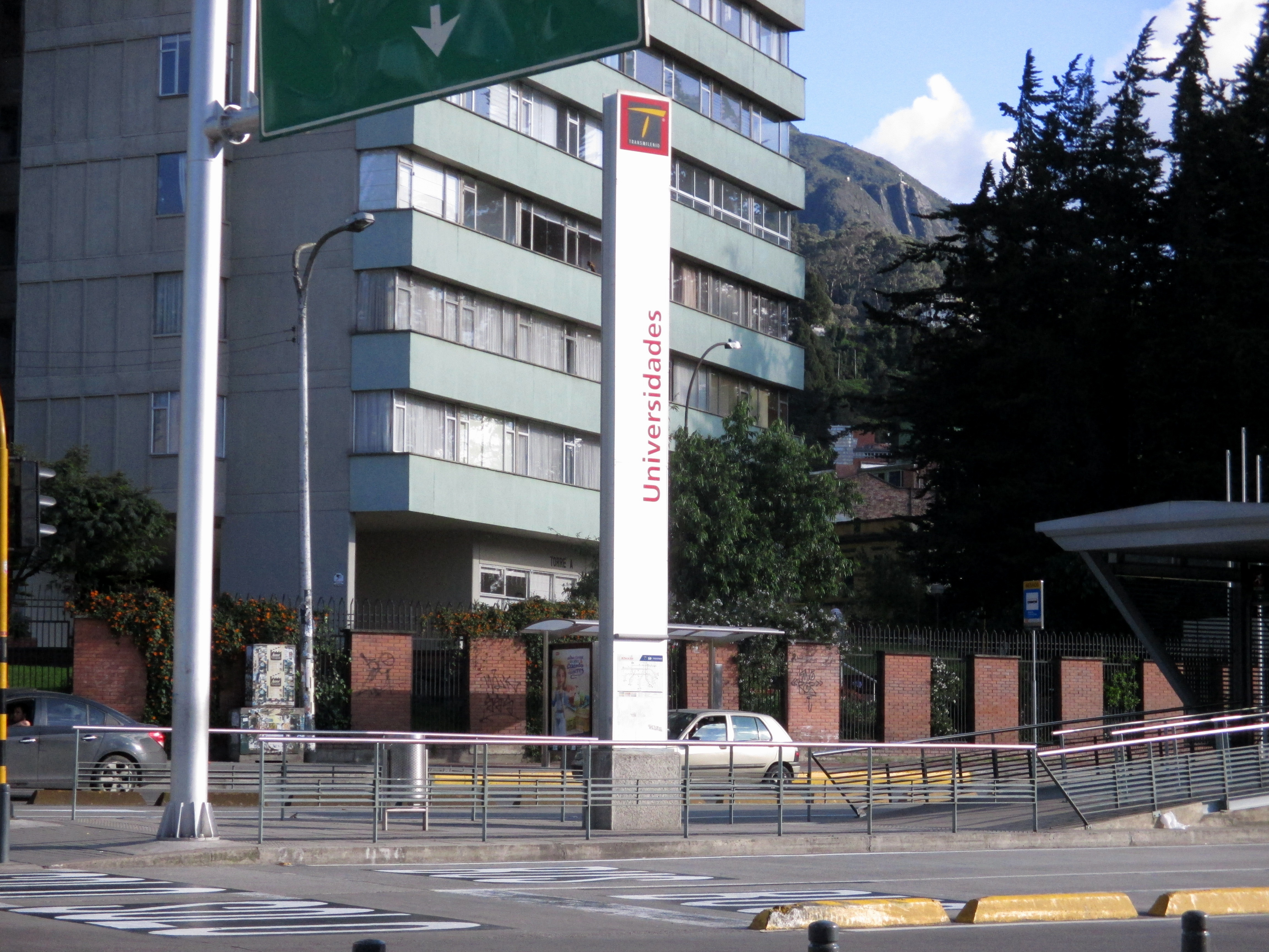 Bogotá